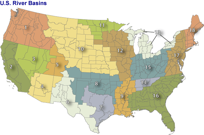 The main river basins in the continental USA.